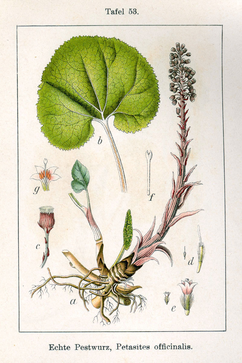 Petasites hybridus (L.) P. Gaertn., B. Mey. & Scherb., syn. Petasites officinalis Moench Original Description Echte Pestwurz, Petasites officinalis